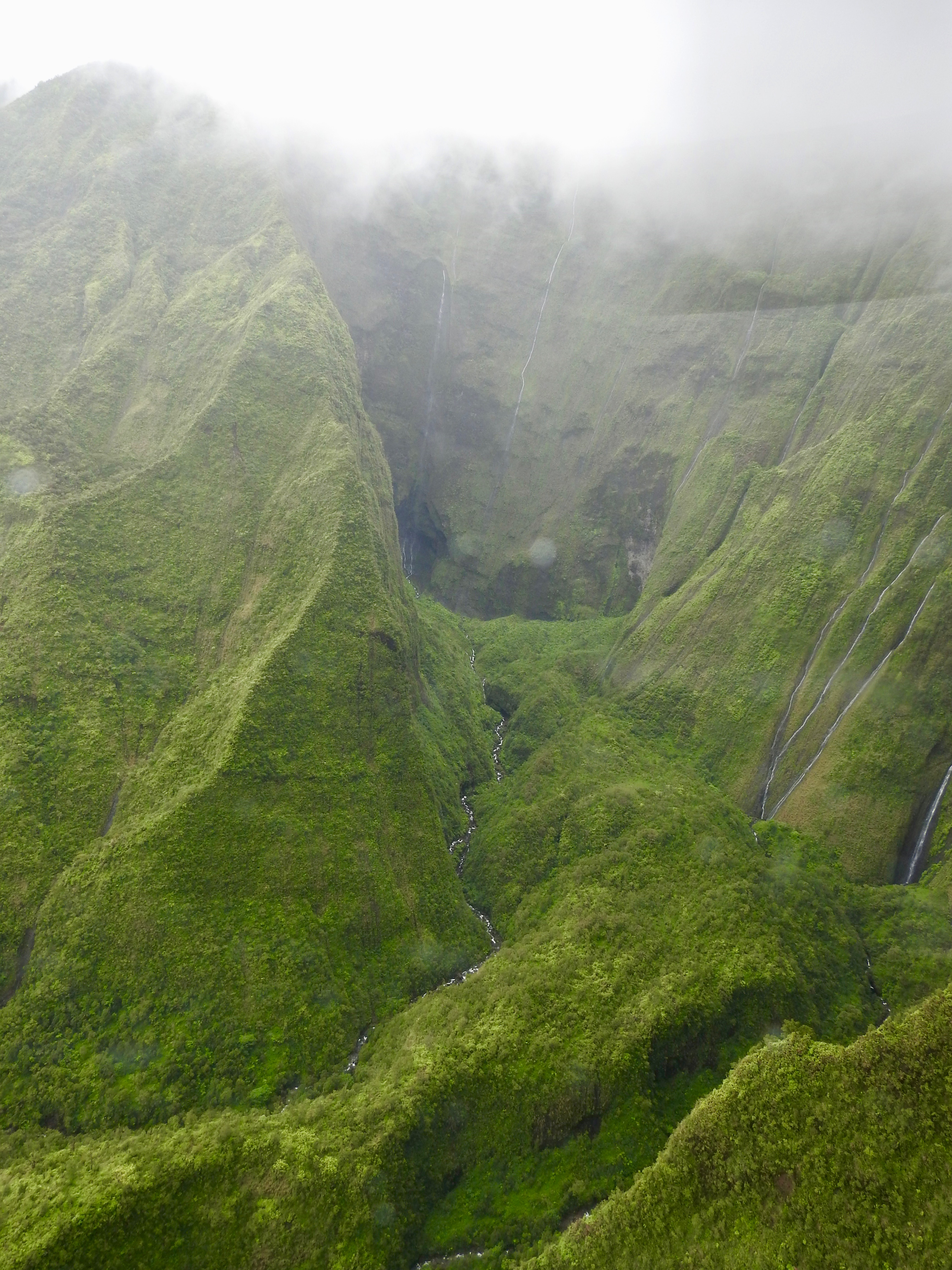 Waterfalls around the cauldera